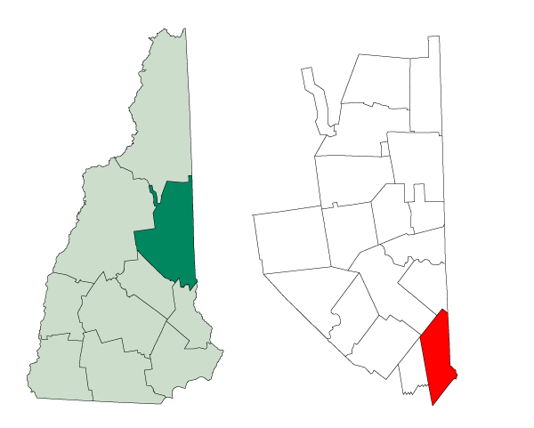 Created from Boundary/Border Outline Files of the Libre Map Project which held a BY-SA creative commons license. Data origionally from 2000 US Census boundary data.